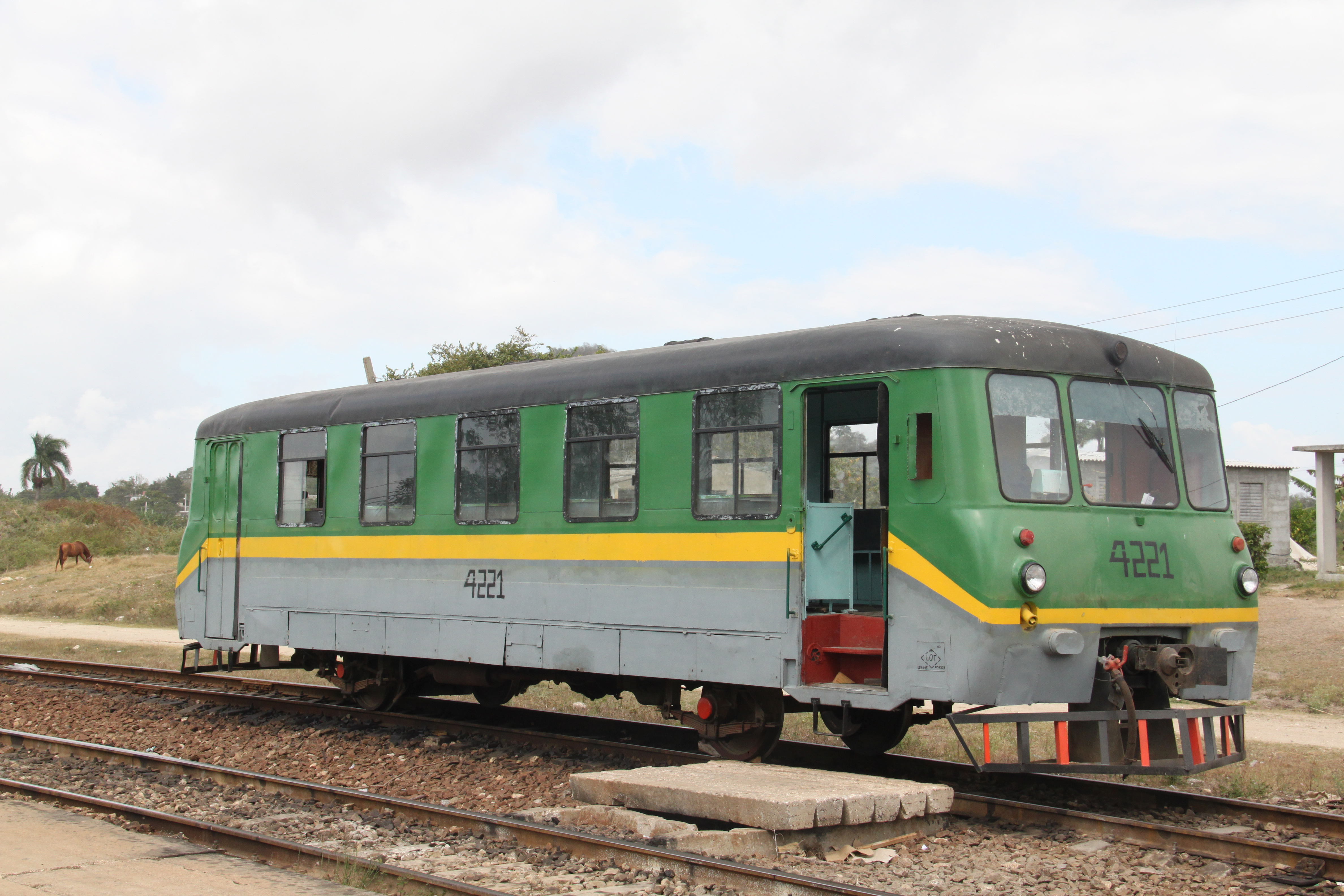 Railcar of the Cuban railways at the Siguaney railway station. This car with number 4221 is the DB/DR 771 028 Ferkeltaxe.